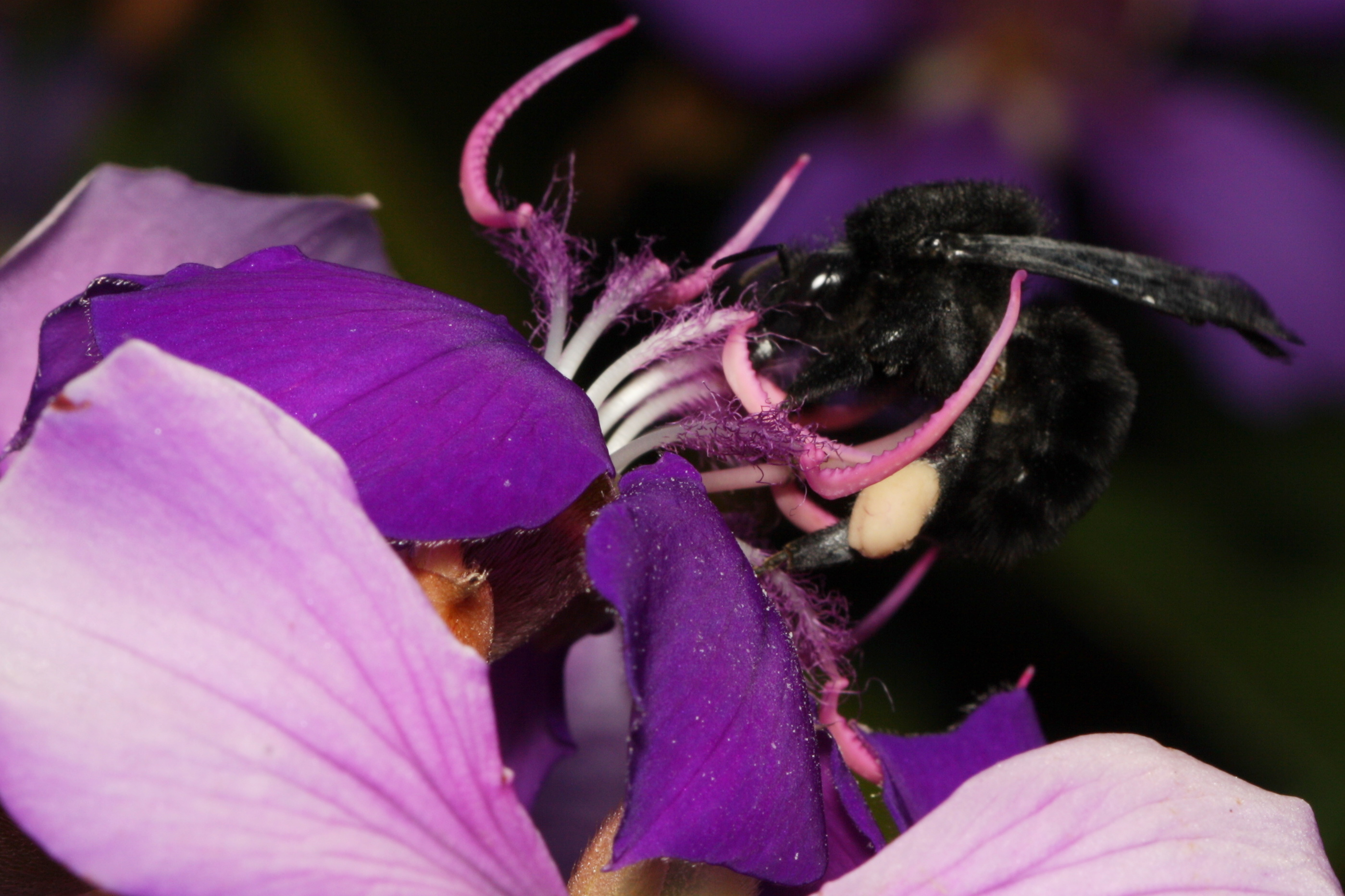 Bombus morio bumblebee visiting Tibouchina granulosa flower. Photo taken at Ubatuba, SP, Brasil